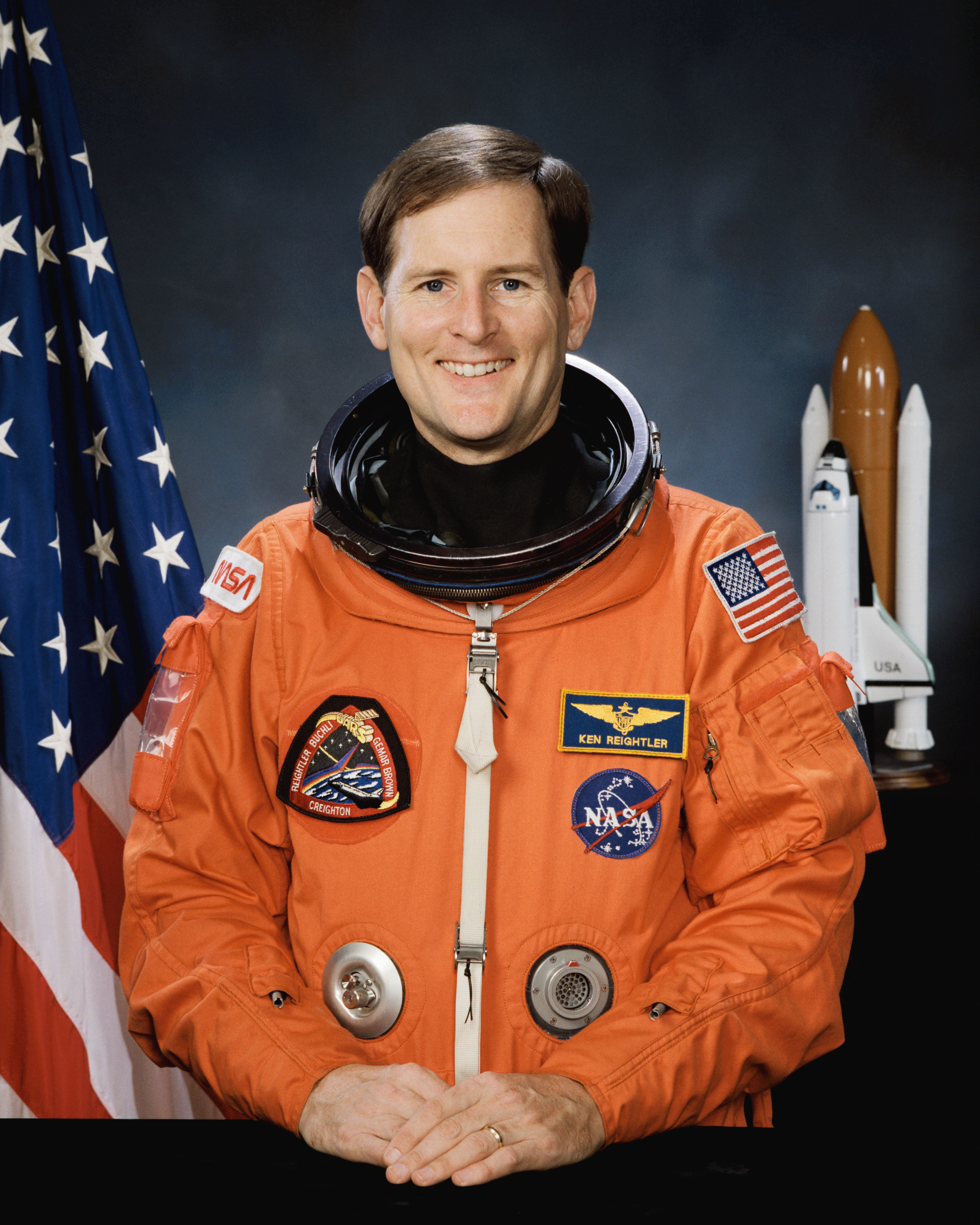 portrait astronaut Kenneth Reightler